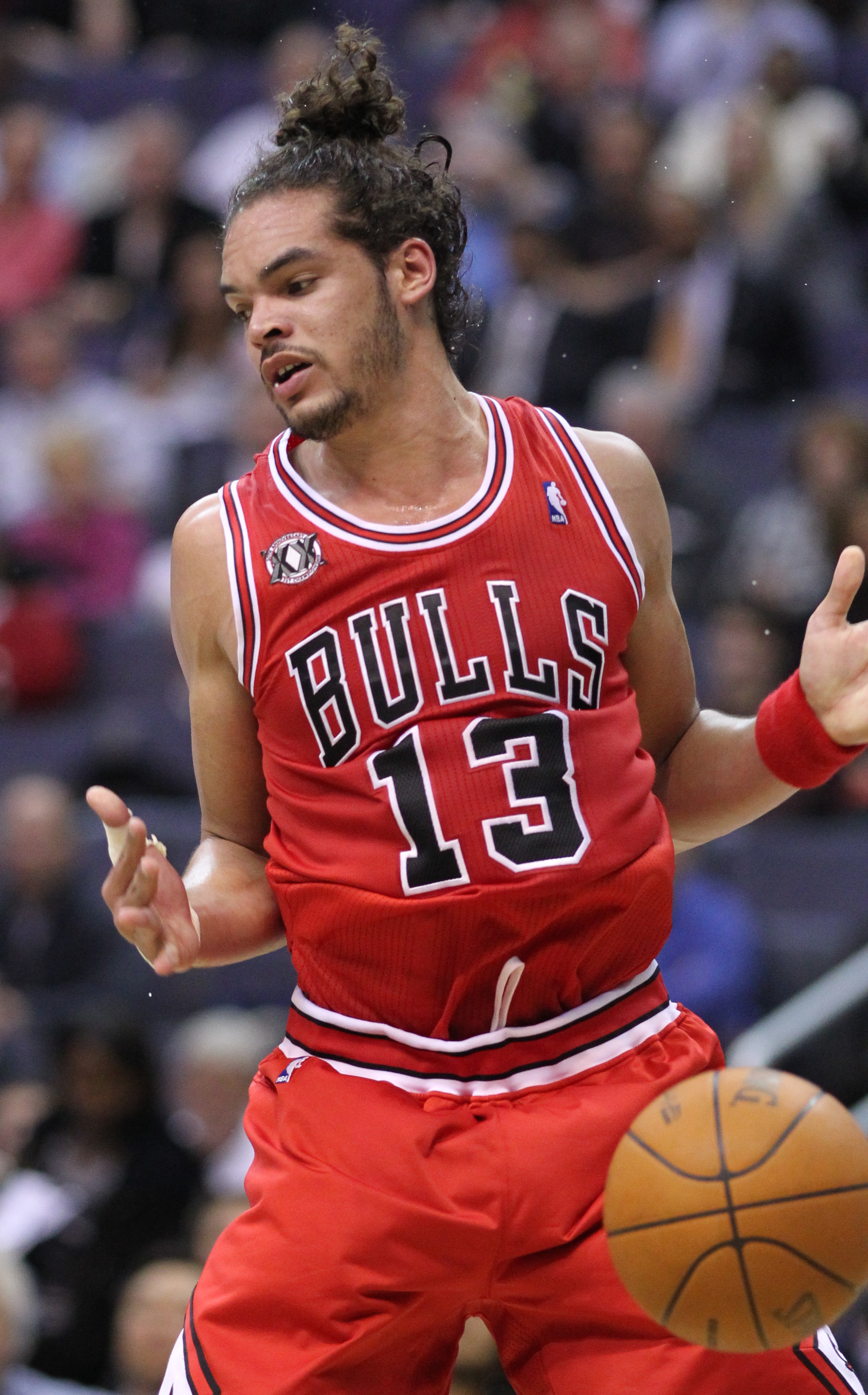 Wizards v/s Bulls 02/28/11